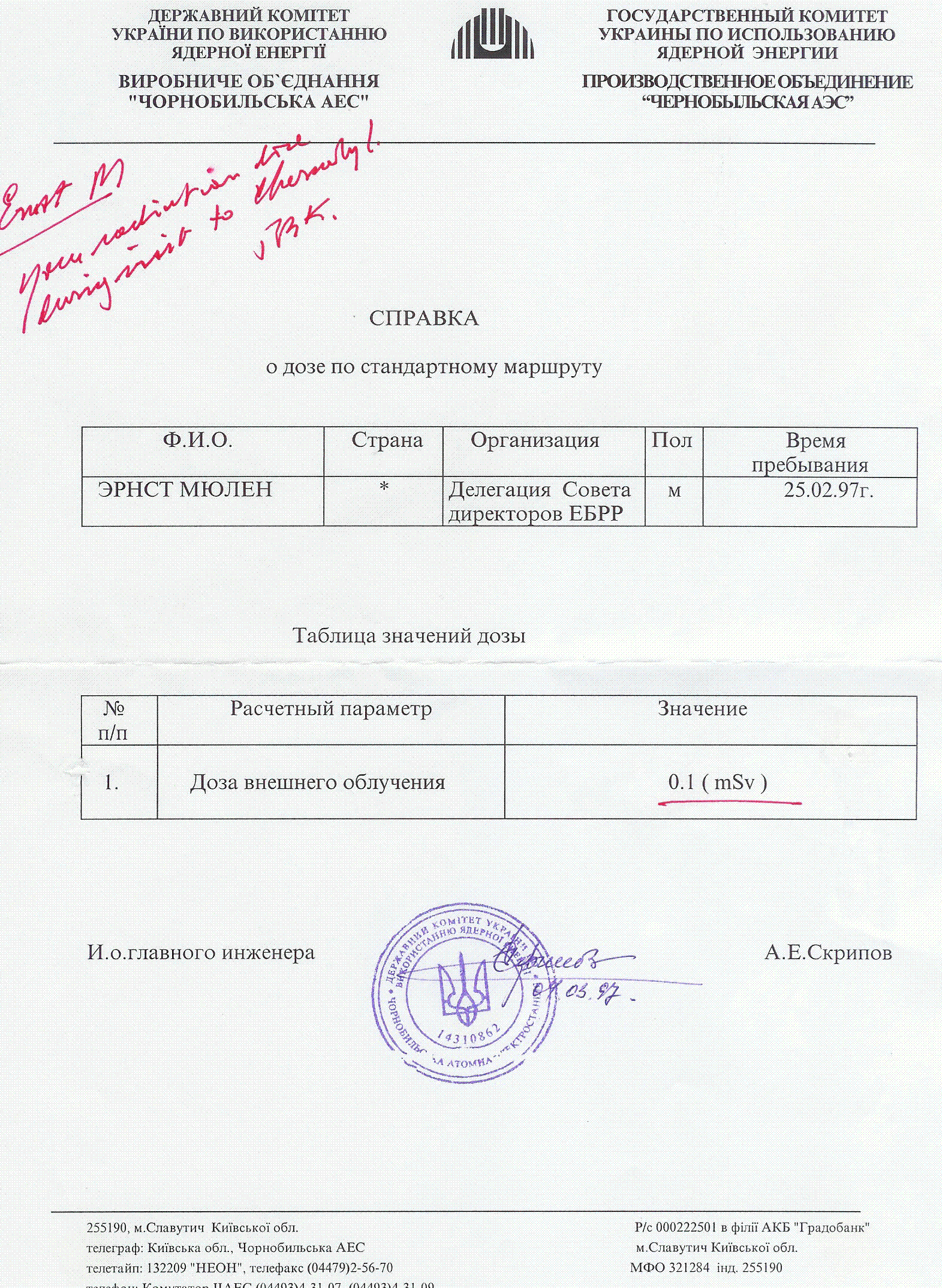 Radiation certificate that each visitor to Chernobyl receives